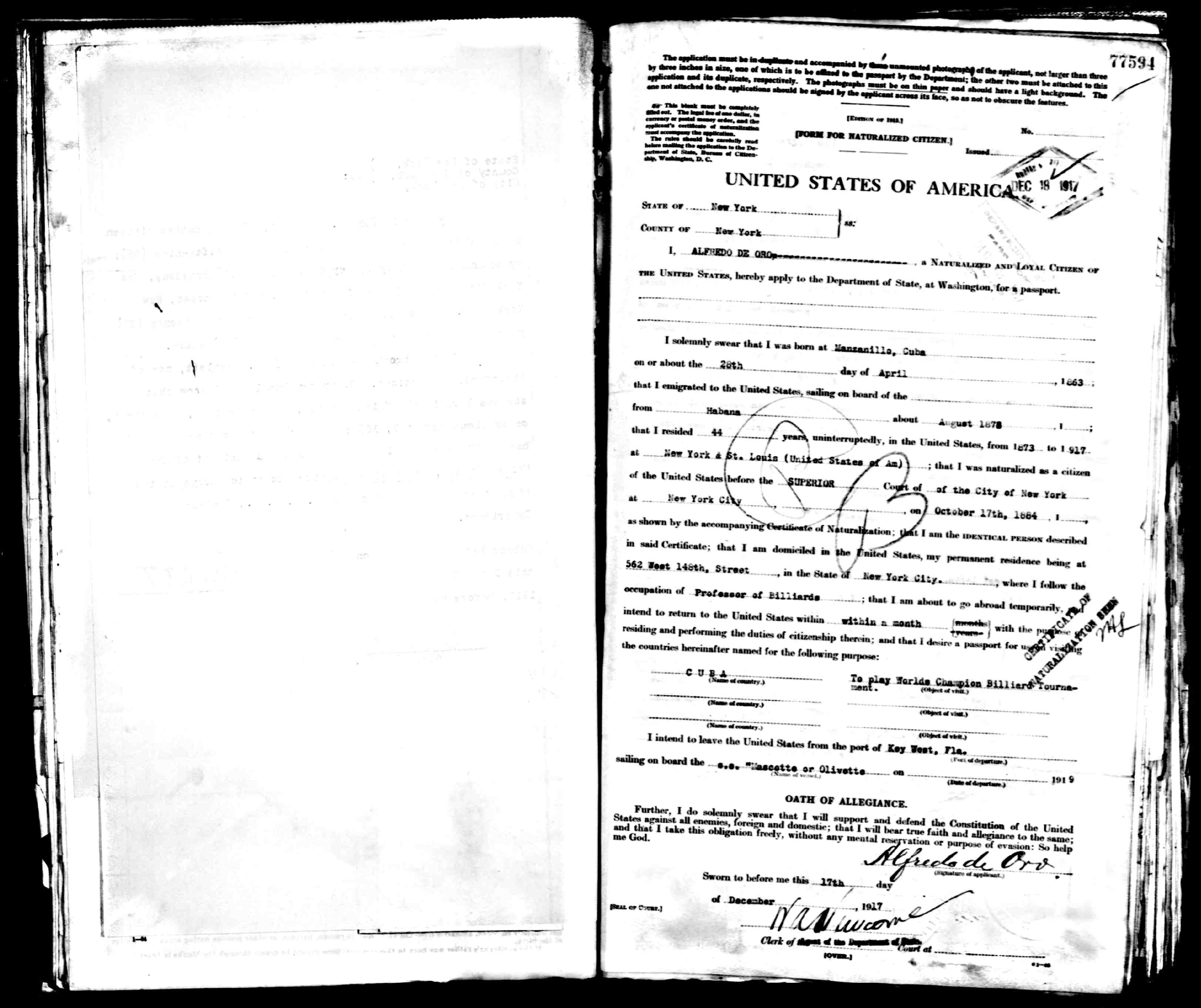 Alfredo de Oro passport application from 1917 from the United States Department of State